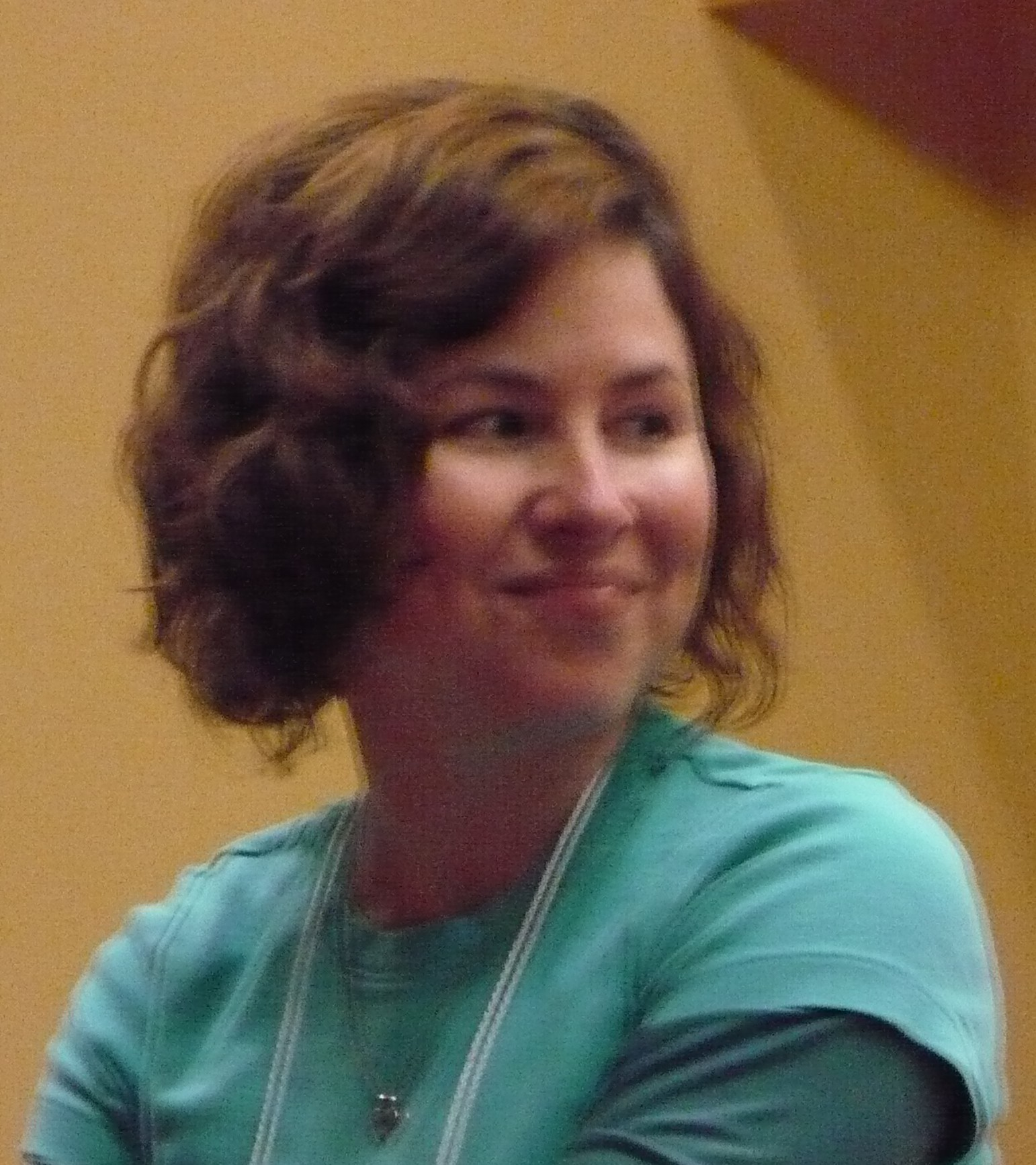 Luci Christian speaking at Anime Evolution 2007